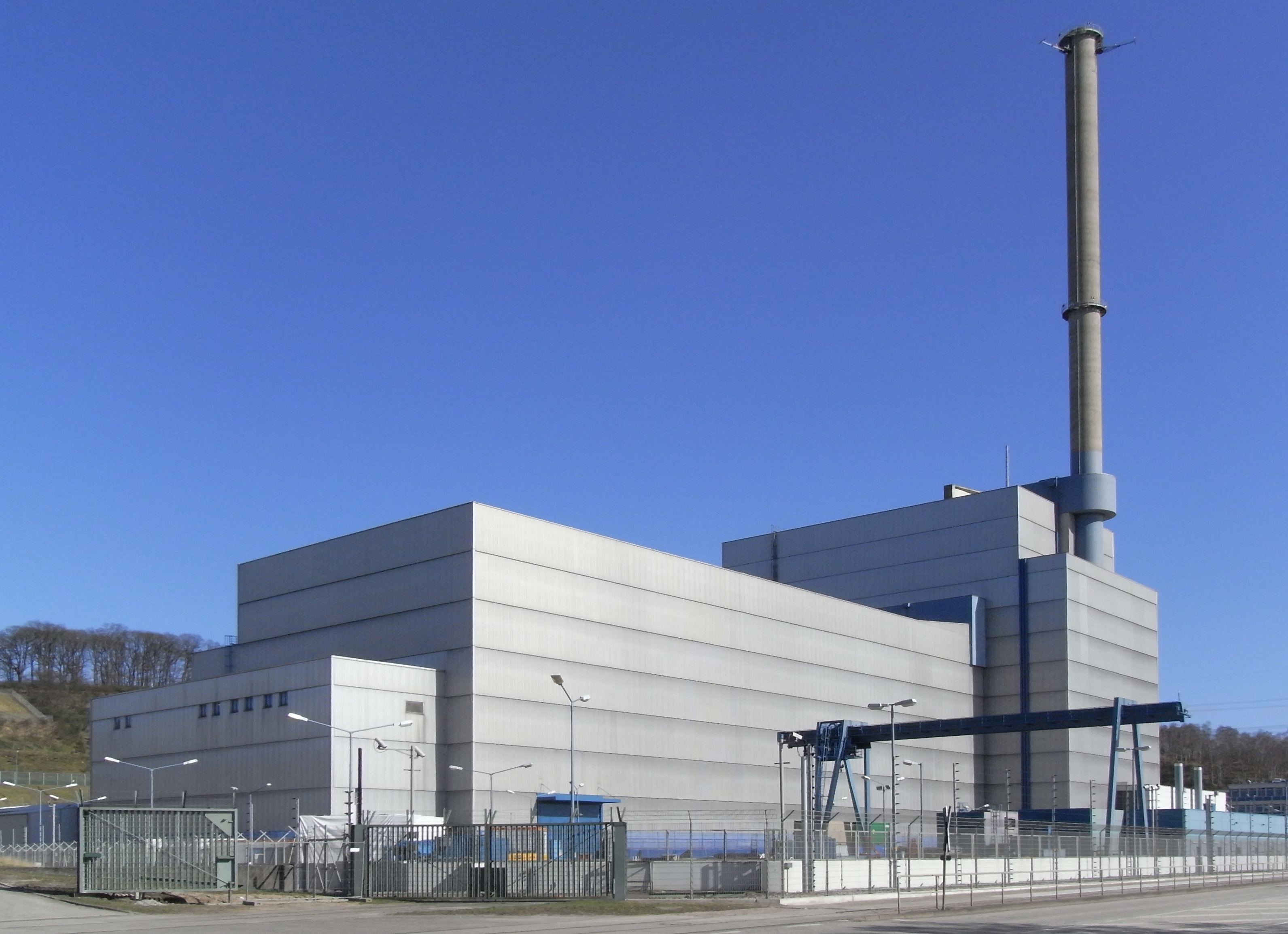 Krümmel nuclear power plant (side view) in Schleswig-Holstein, Germany.